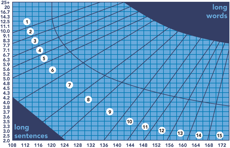 A vector graphic based on (the widely-used) Dr. Fry's readability formula: The y-axis is the average number of sentences per hundred words. The x-axis is the average number of syllables per hundred words. The intersection of the x and y axis determines the reading level of the content.